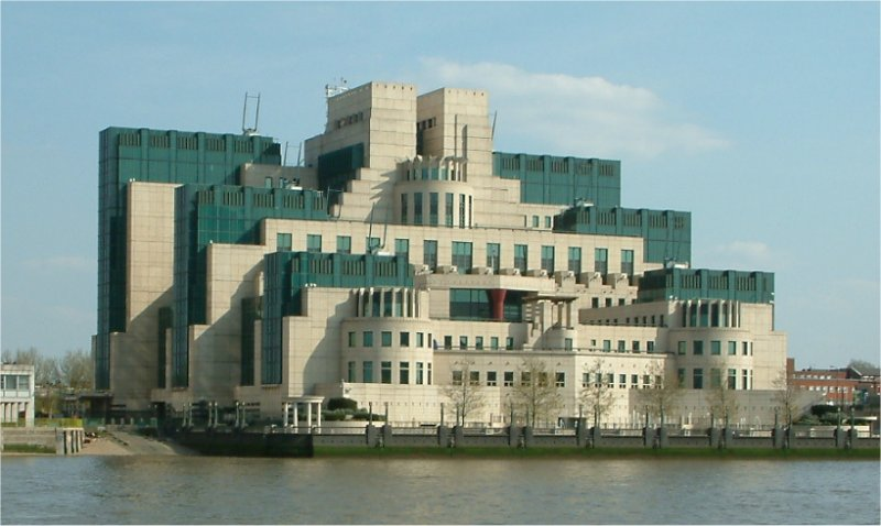 Secret Intelligence Service building, seen from Millbank - Vauxhall Cross - Vauxhall - London - England